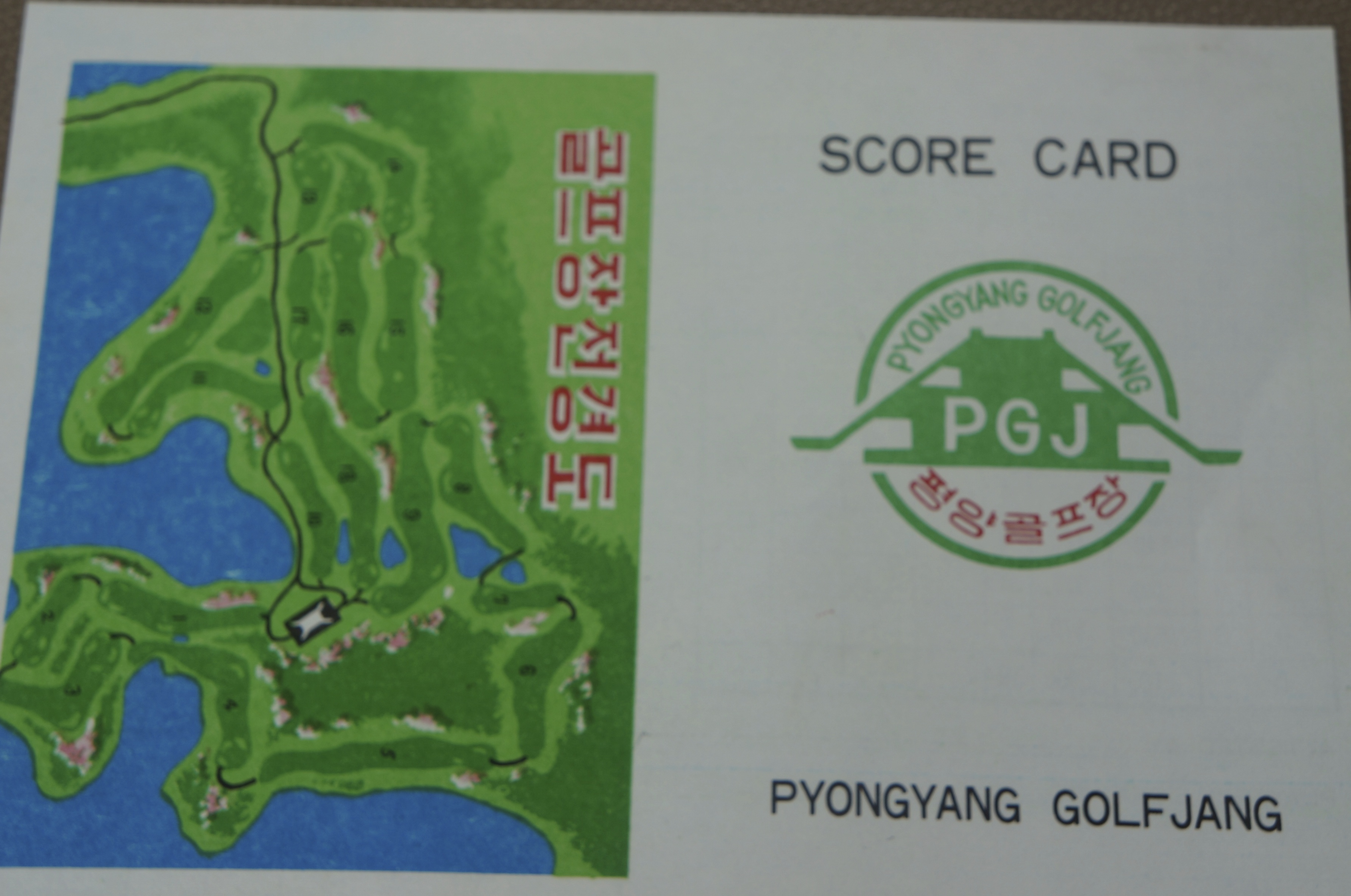 18-hole golf course spans 45 hectres (111 acres) and is located on Lake Taesong in Ryonggang County, North Korea. The Pyongyang Golf Course was completed in 1988